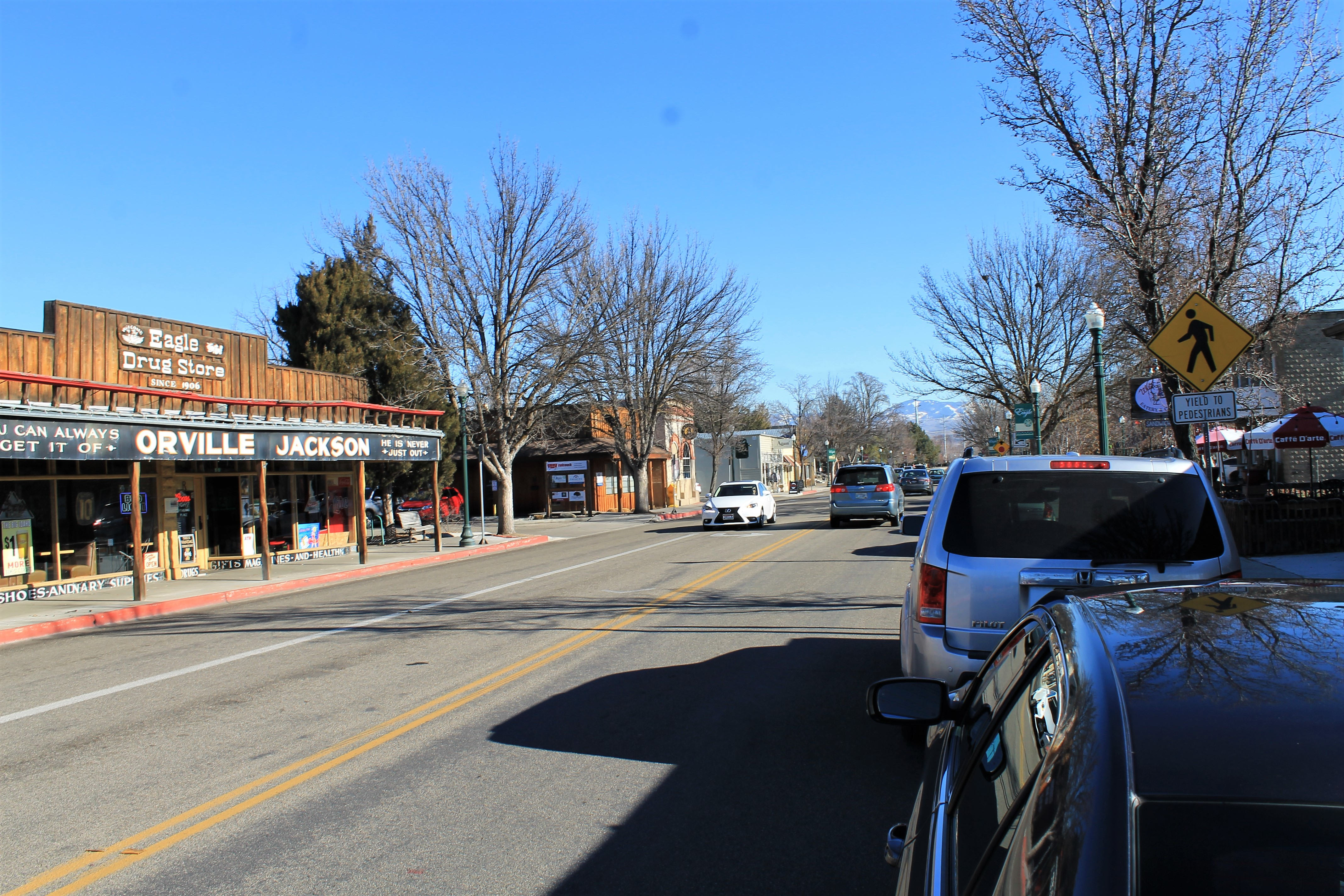 Downtown Eagle on January 29th, 2019. Photo taken by Richard Mouser.